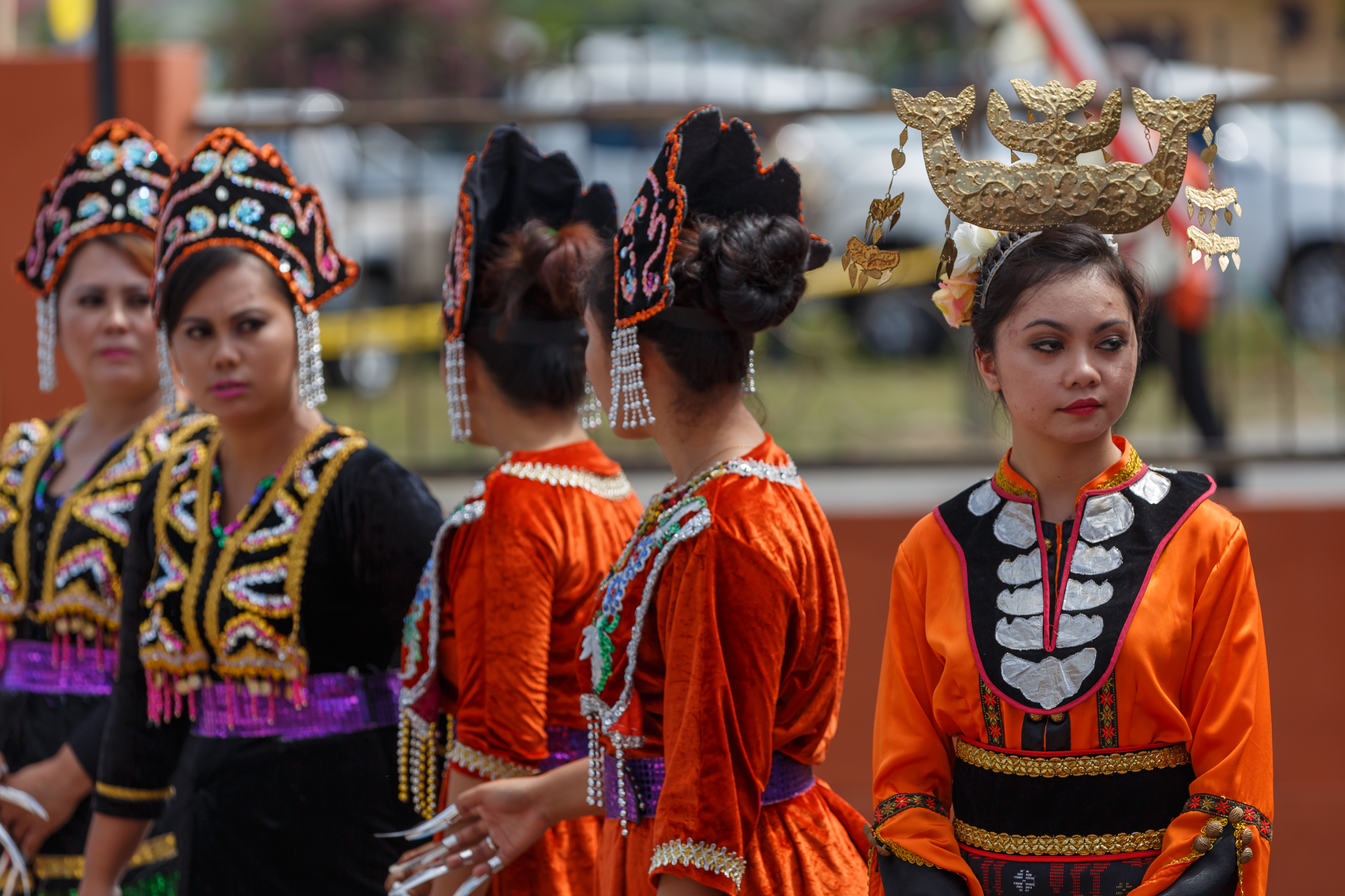 Semporna, Sabah: Bajau women in traditional clothing waiting for the arrival of Head of State. (Photo taken at the opening of Tun Sakaran Museum)